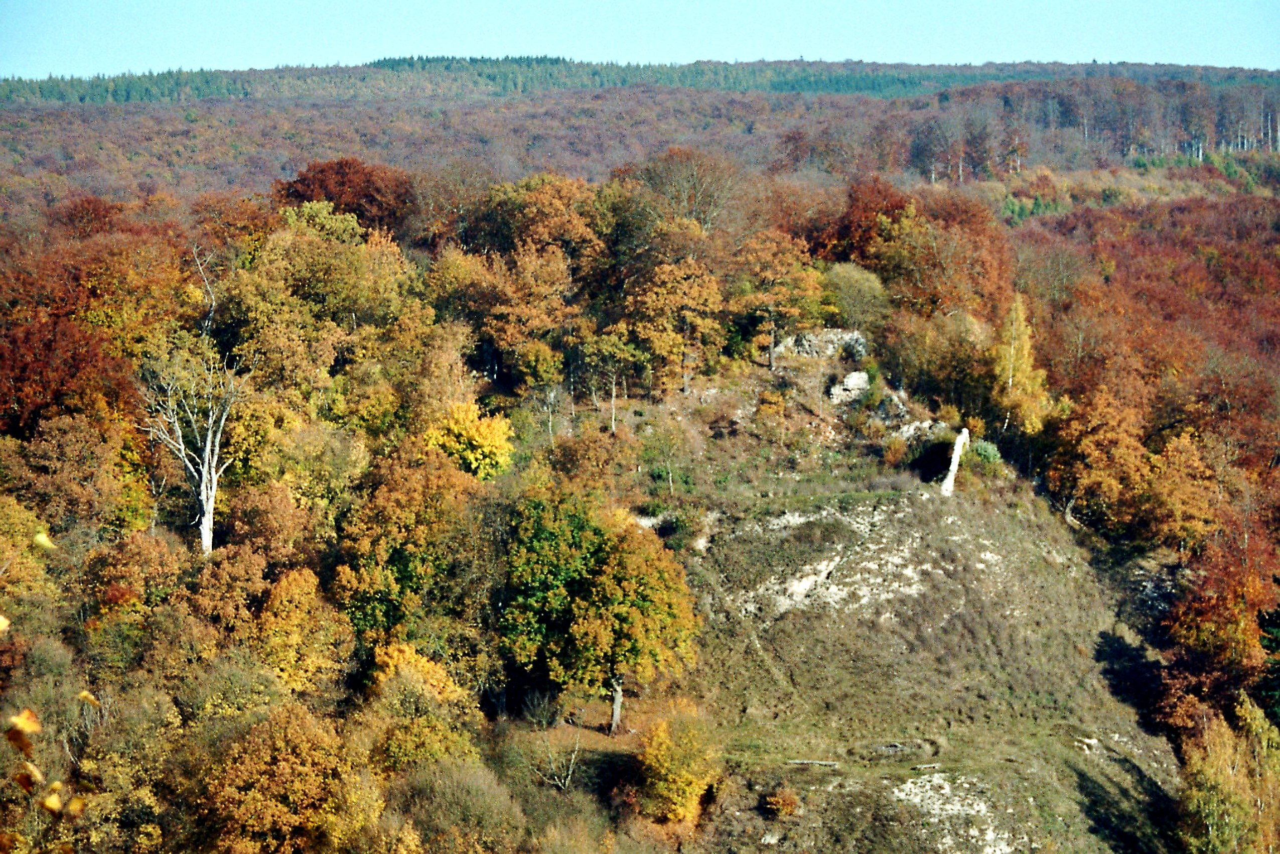 Questenberg (Südharz), the ruined castle This is a photograph of an architectural monument. 81743